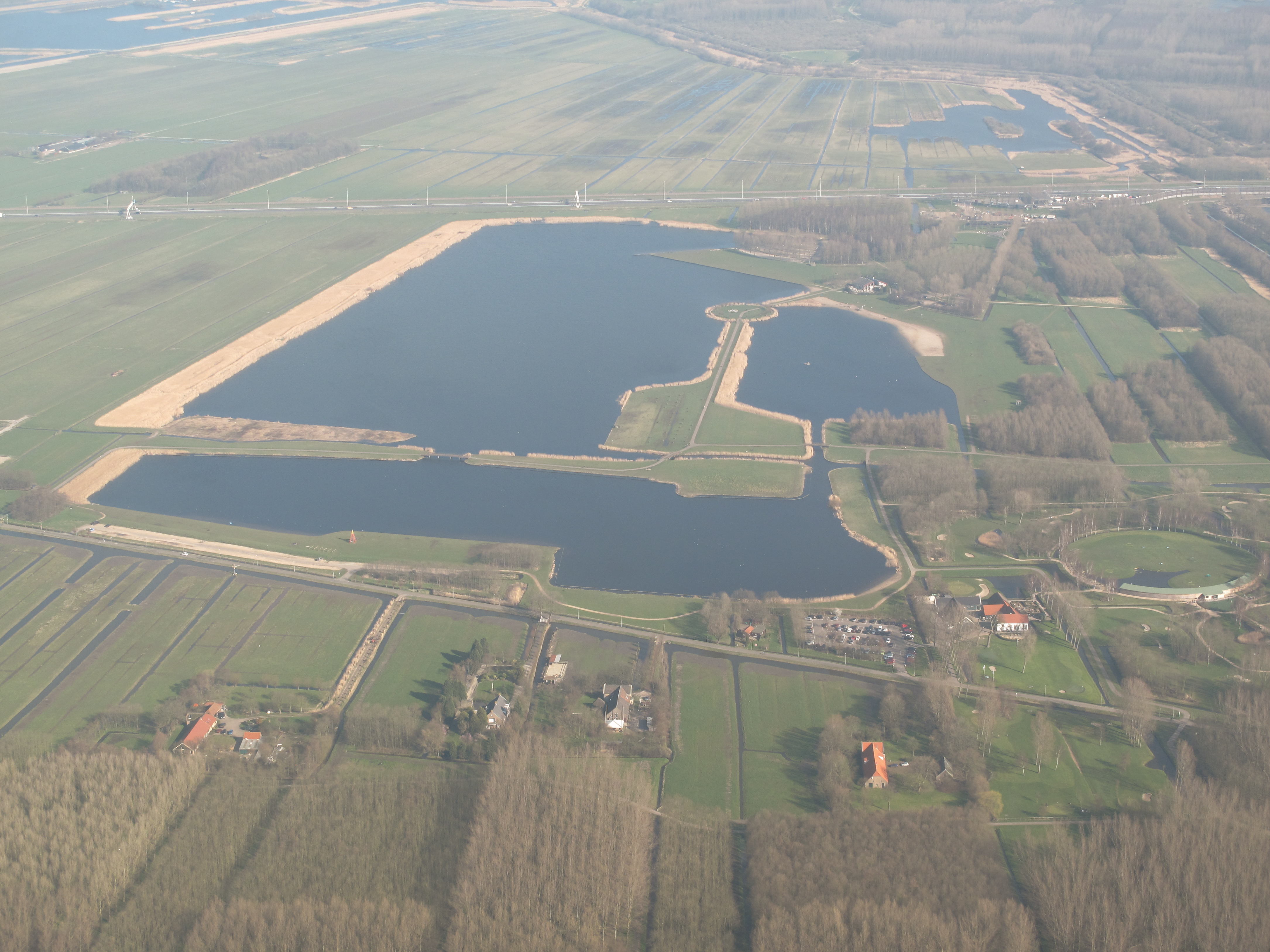 Vlaardingen, water: de Krabbeplas